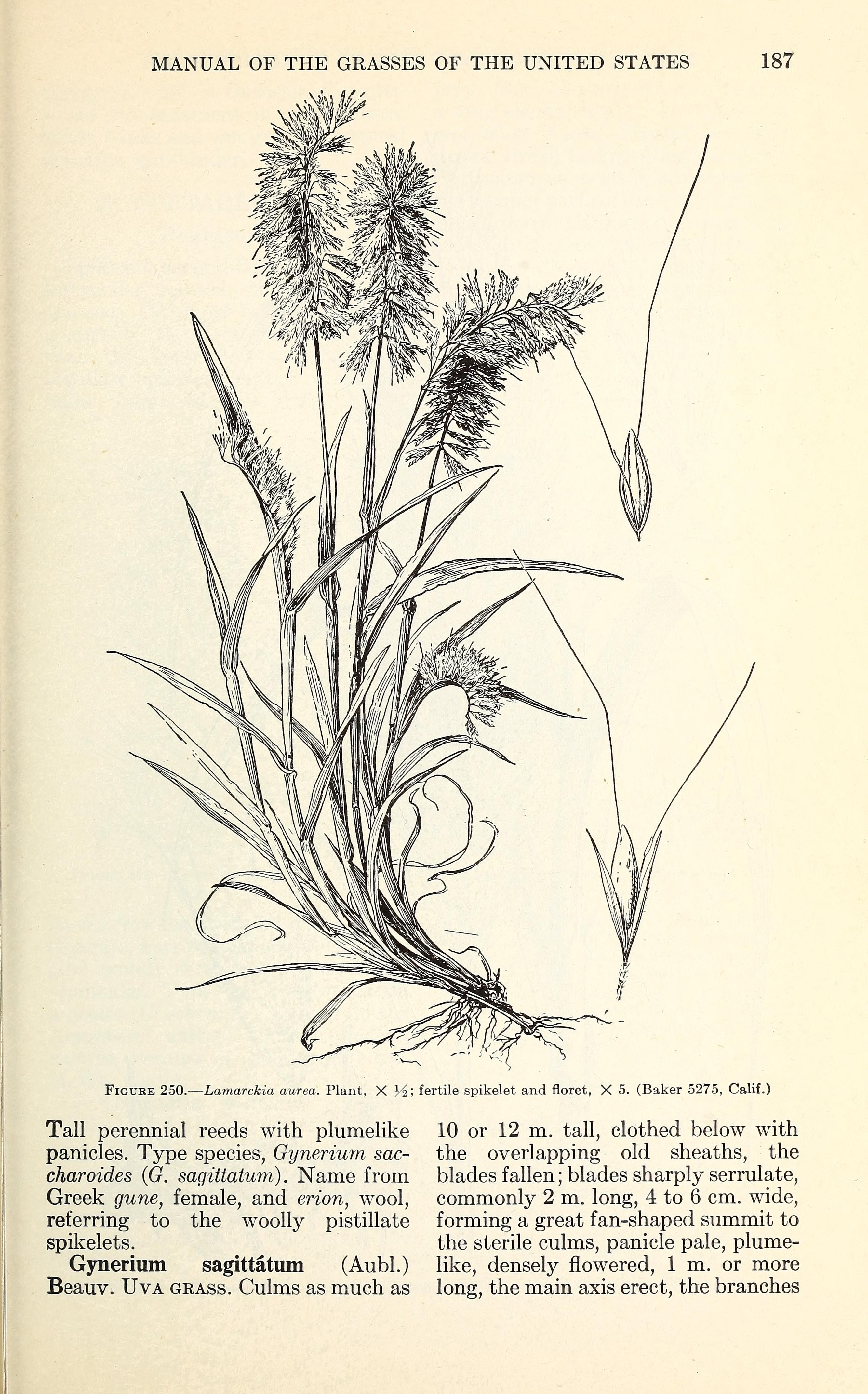 Manual of the grasses of the United States /